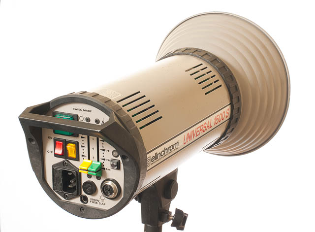 Back view of an Elinchrom 1500S flash unit, showing the controls